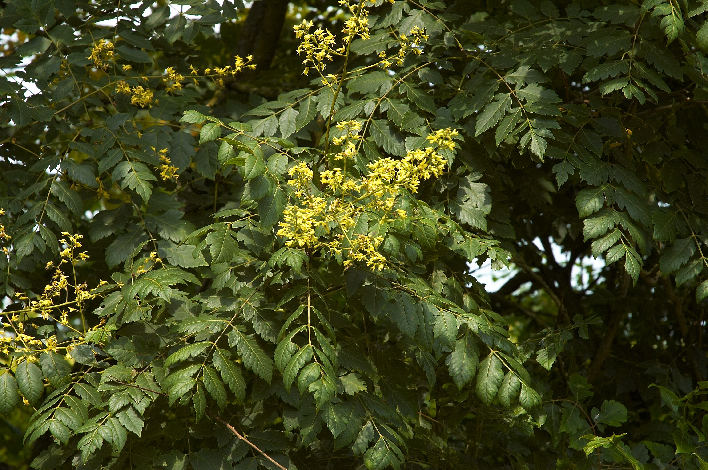 Goldenrain tree, Pride of India, or China tree